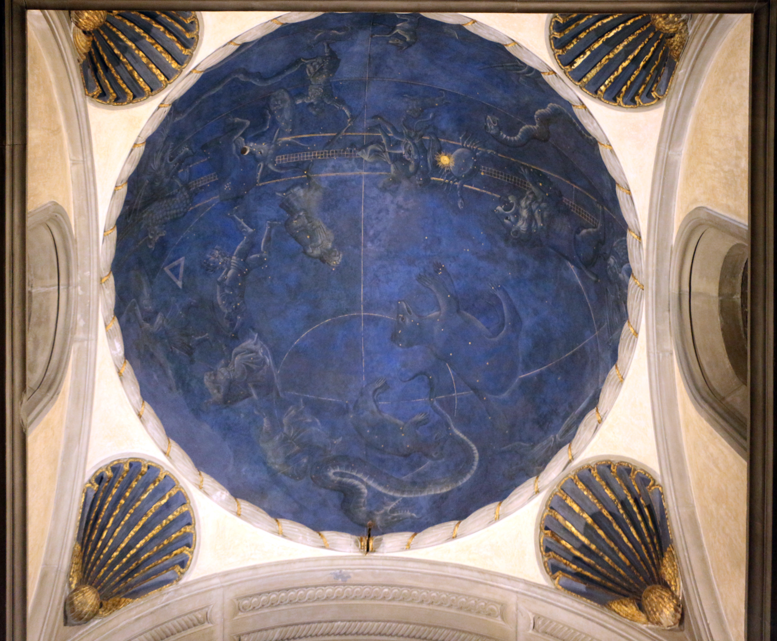 Interior of the Basilica of San Lorenzo (Florence)